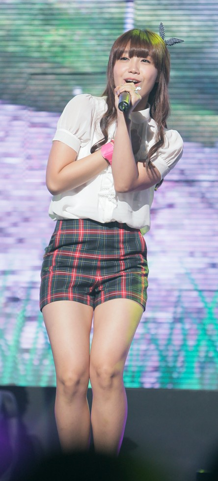 Jung Eunji at the GSL Season 5 Code S Final Performance, 10 September 2011